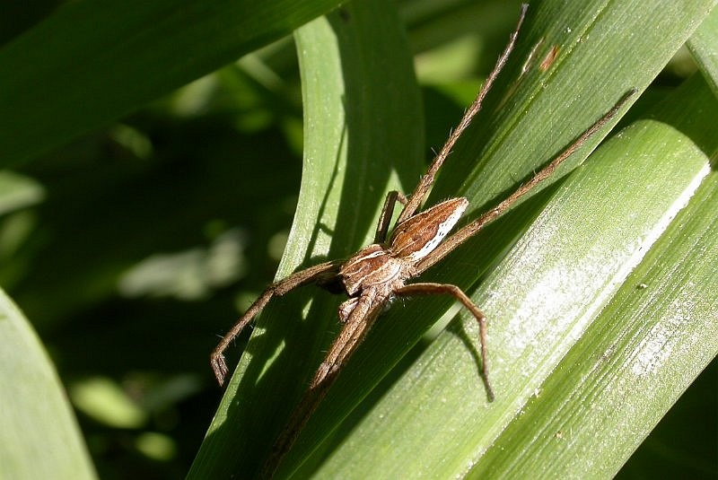 Pisaura mirabilis in a garden at Gradignan in Gironde, France.